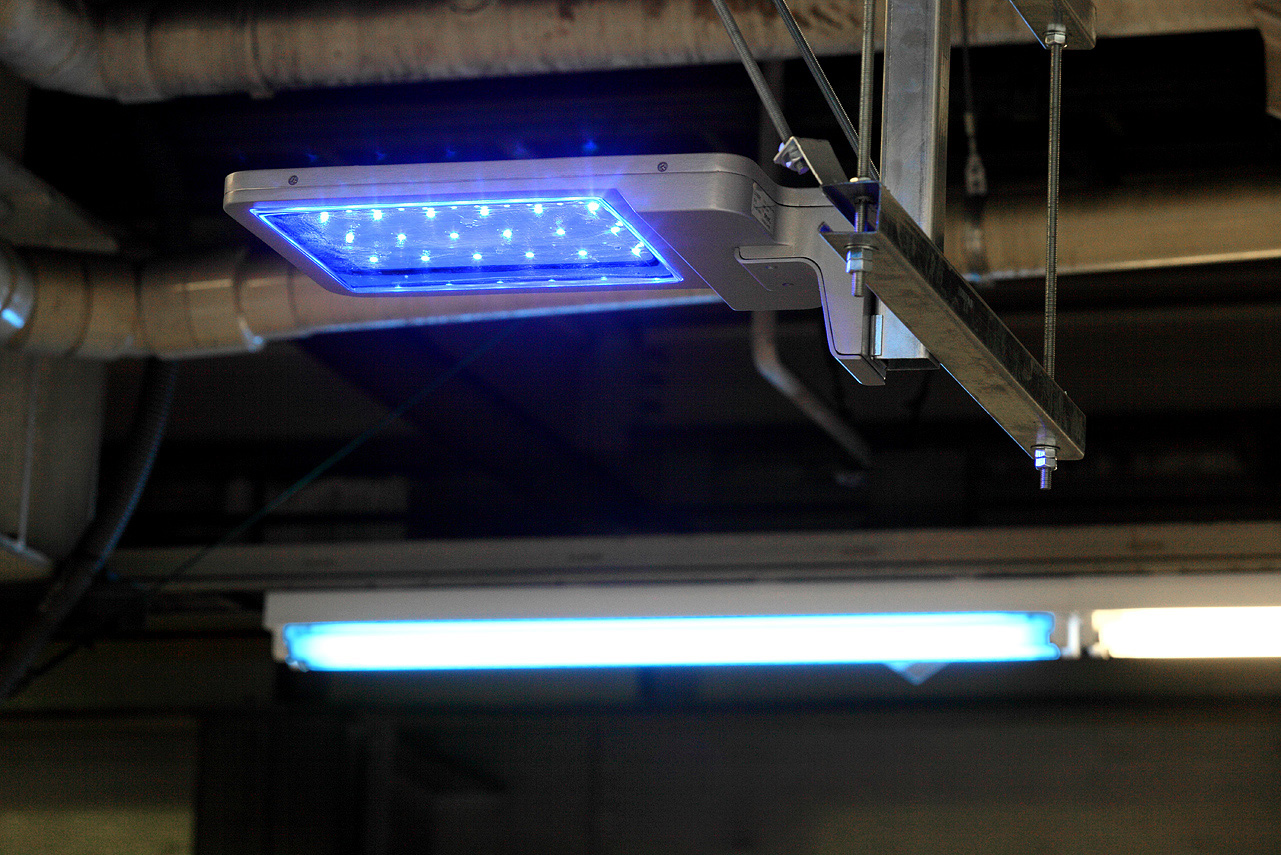 Illuminations for suicide prevention at train platform of JR East.